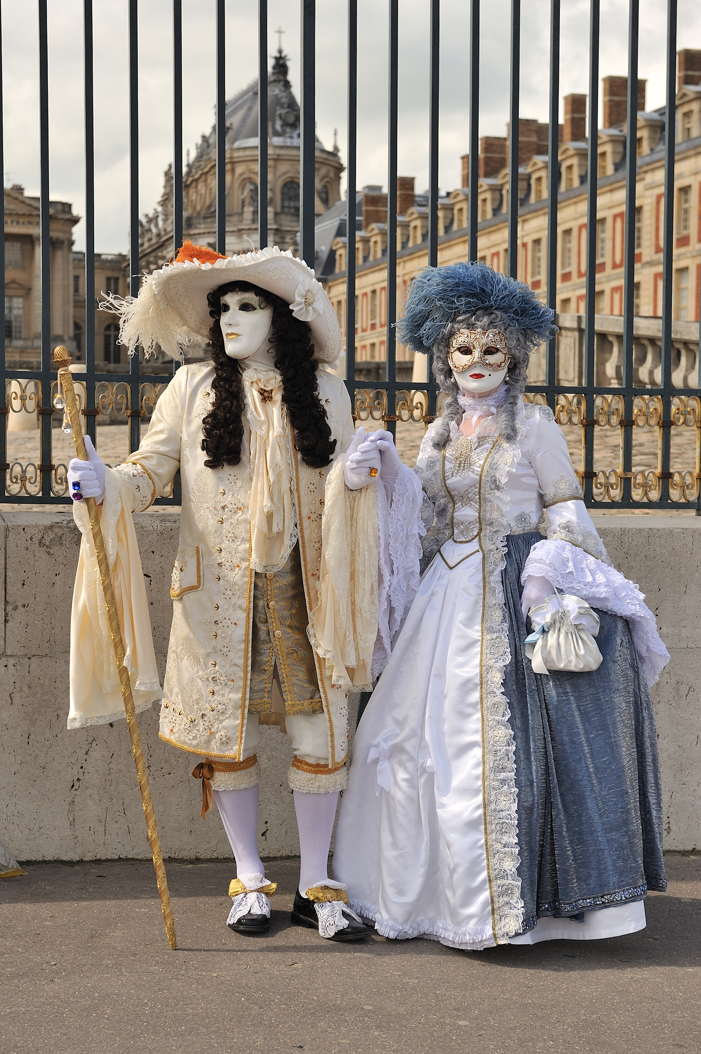 Louis XVI and Marie-Antoinette in front of Versailles Palace.